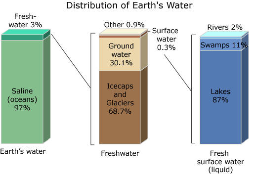 Graph of the locations of water on Earth